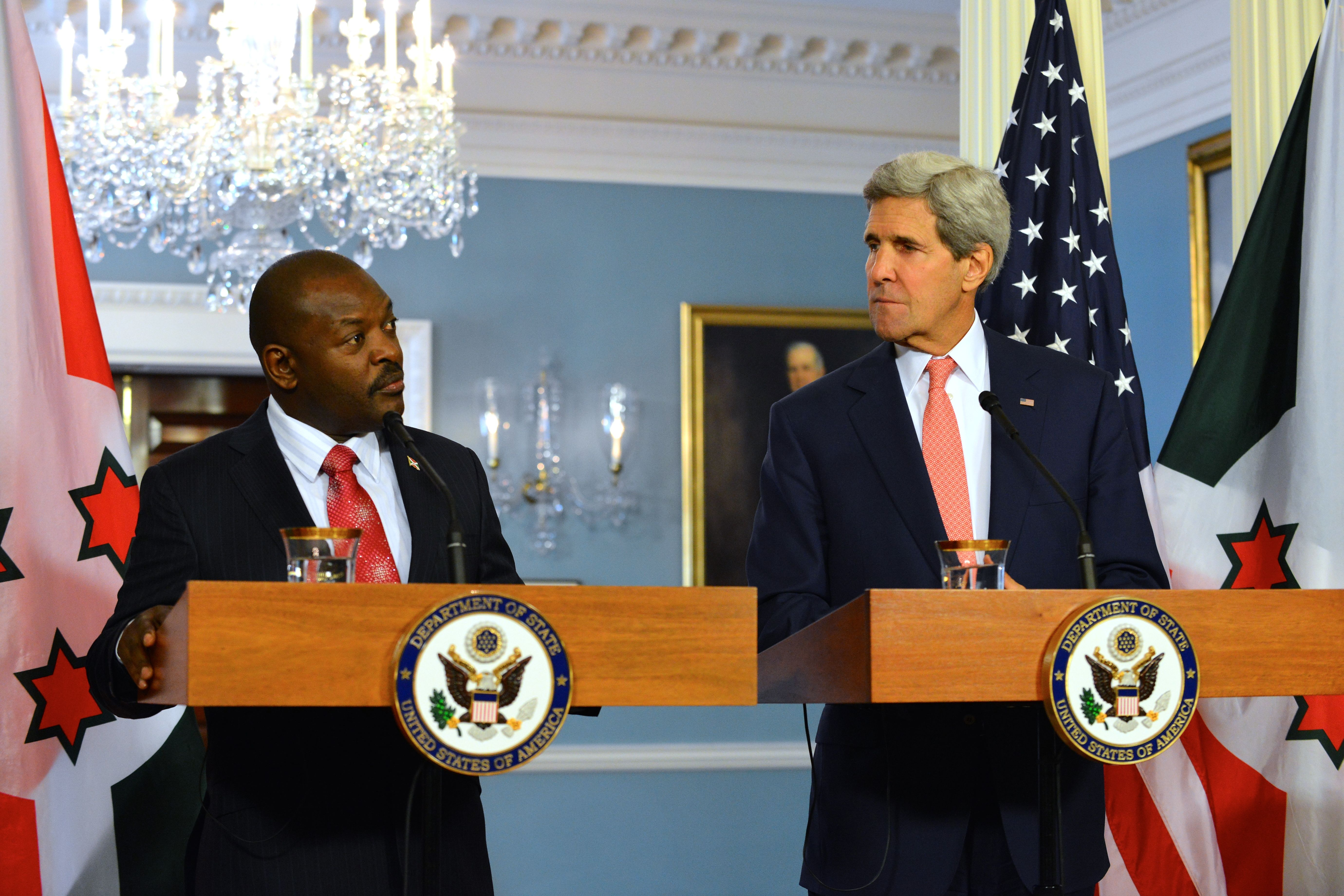 U.S. Secretary of State John Kerry and Burundian President Pierre Nkurunziza address reporters before their bilateral meeting at the U.S. Department of State in Washington, D.C., on August 4, 2014. Leaders from across the African continent are in the nation's capital for a three-day U.S.-Africa Leaders Summit, the largest event any U.S. President has held with African heads of state and government.